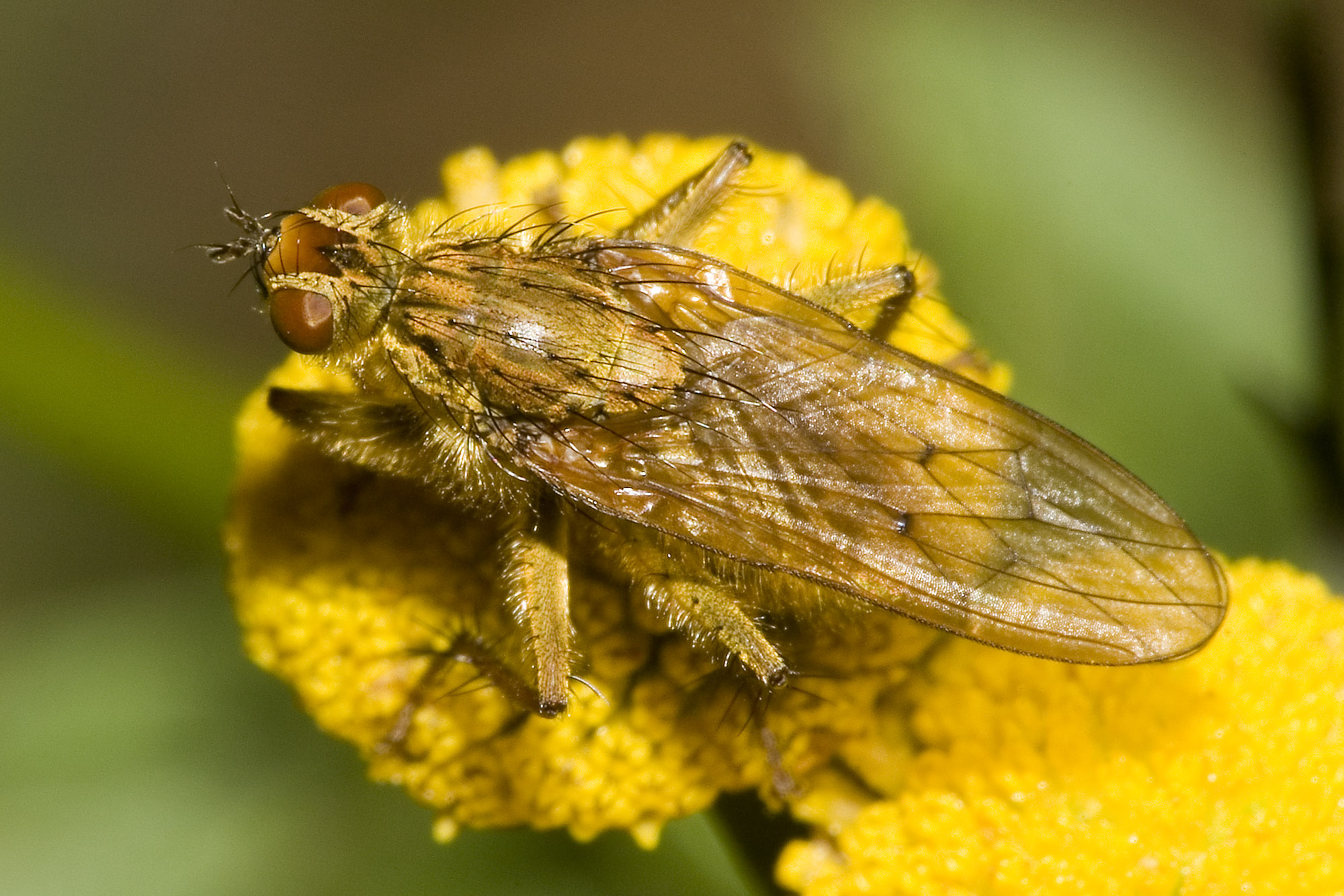 Please report references to .